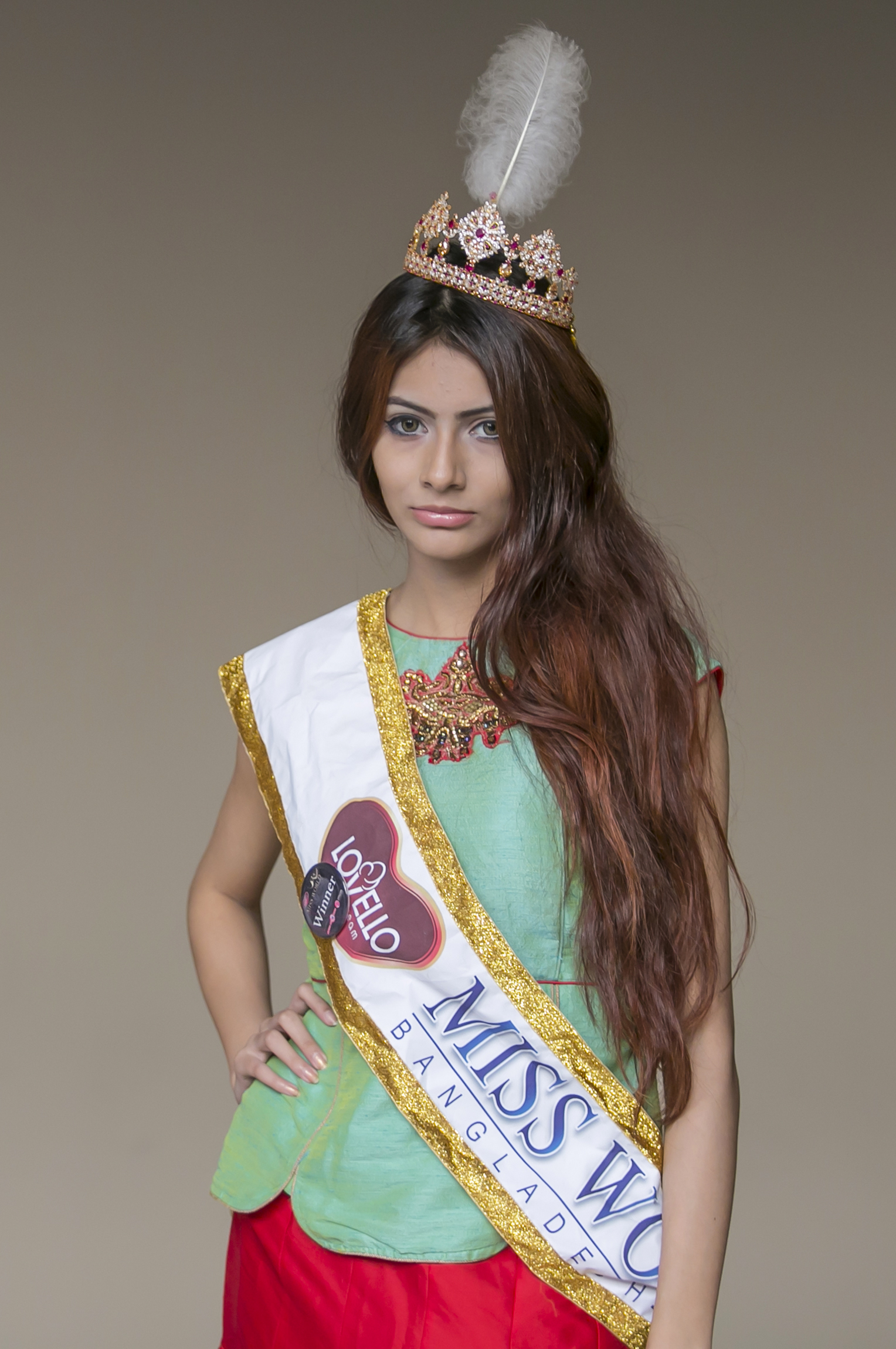 Jessia Islam is a Bangladeshi model and beauty pageant titleholder who was crowned Miss Bangladesh 2017.